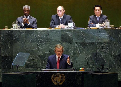 President George W. Bush addresses the United Nations General Assembly in New York City on the issues concerning Iraq Thursday, September 12 2002. Present on the picture are also: up left - Koffi Annan the Secretary-General of the United Nations at the time (from 1 January 1997 to 31 December 2006). up center - Jan Kavan - the President of the United Nations General Assembly at the time (from 2002 until 2003)